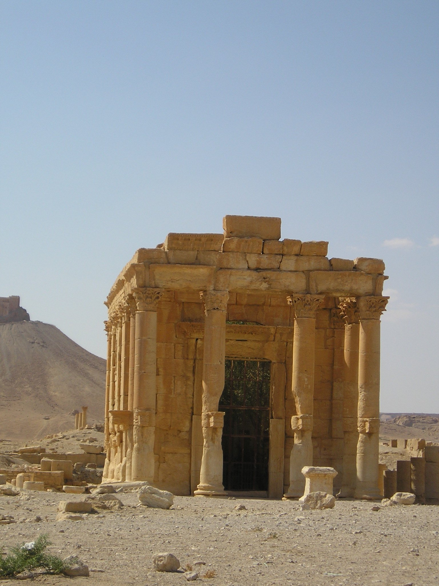 Palmyra, Syria - temple of Baal Shamin